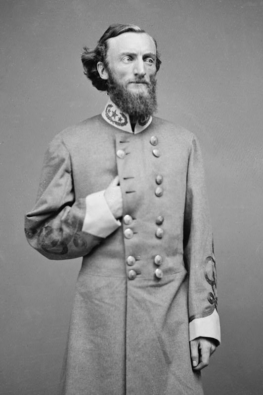 Portrait of Brig. Gen. John S. Marmaduke, officer of the Confederate Army